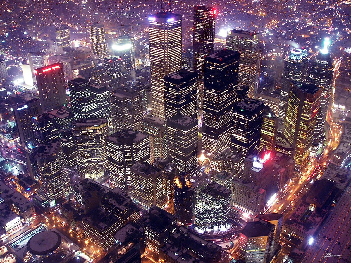 Toronto from CN tower just before the new year, PowerShot S1 IS (no post processing on this)